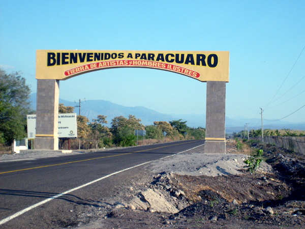 Gateway to Parácuaro, a municipality of Michoacán, Mexico